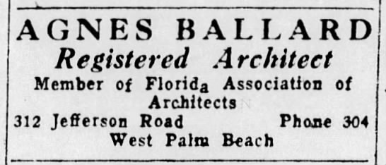 Agnes L. Ballard (September 14, 1877 – November 24, 1969) was an American architect and educator. She was the first woman registered architect in Florida, the sixth woman to be a member of the American Institute of Architects nationwide and was the one of the first women to hold elected office in Florida.